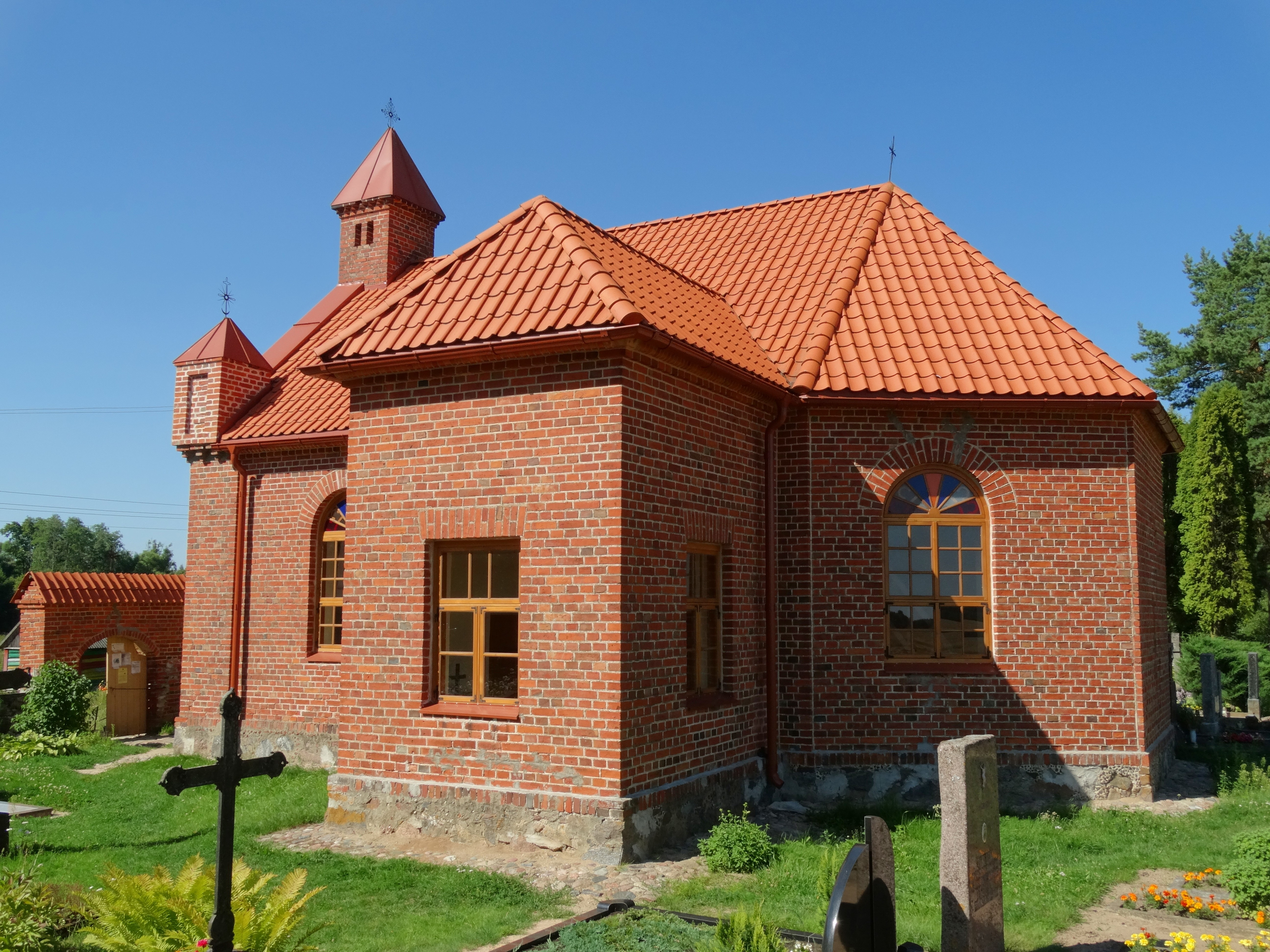 Chapel, Milvydžiai, Joniškis District, Lithuania